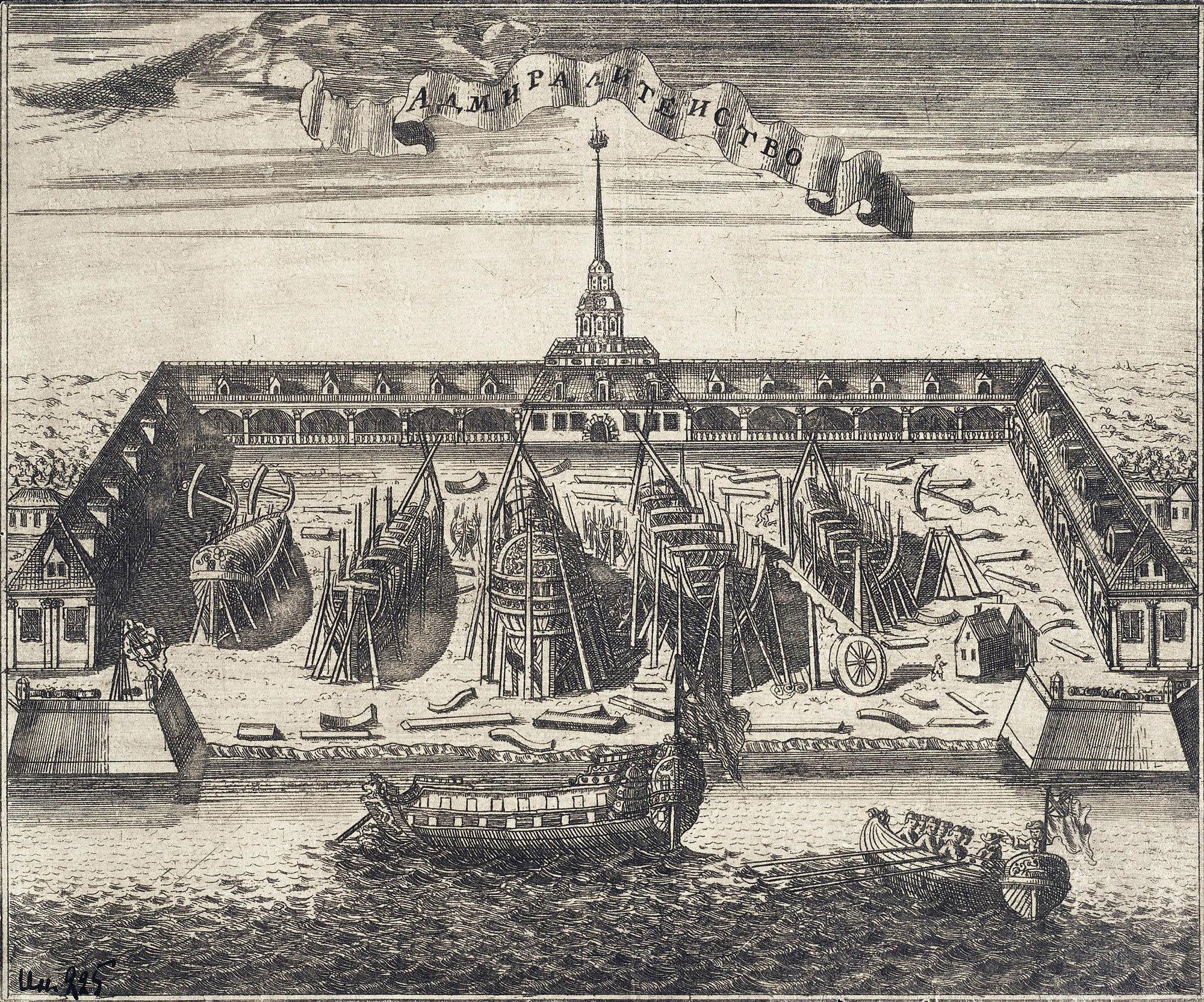 Saint Petersburg (Russia), Russian Admiralty.